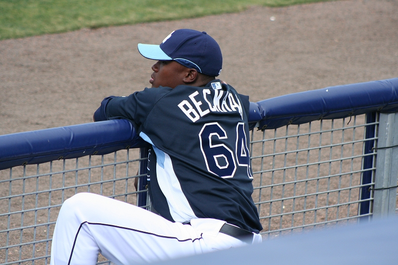 Description Tim Beckham Date3.7.2009SourceI created this work entirely by myself.AuthorHappyHarvick2962 (talk) 09:46, 8 March 2009 . . HappyHarvick2962 . . 800×533 (307 KB) Tim Beckham